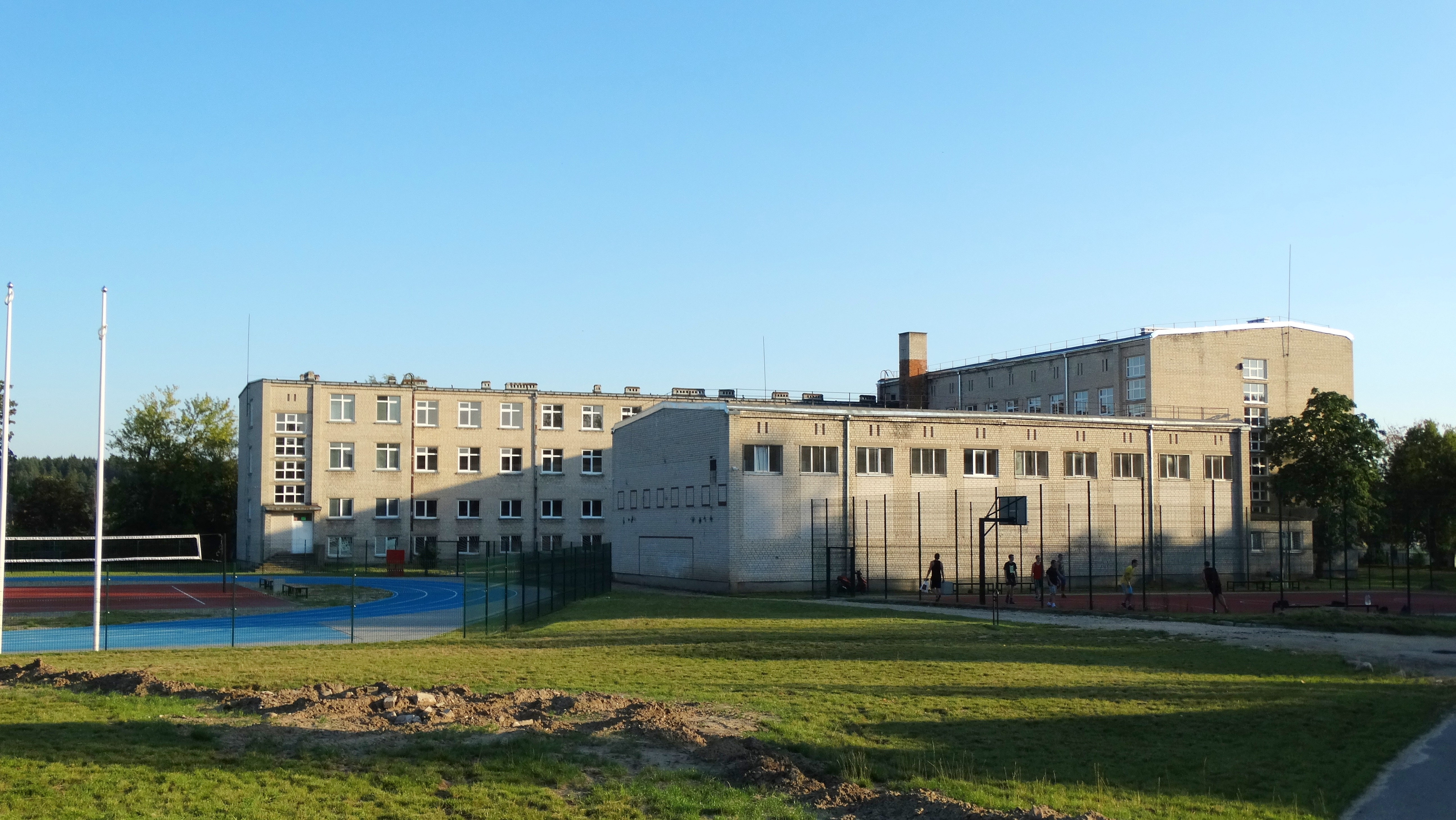 Žeimena Gymnasium, Pabradė, Švenčionys District, Lithuania